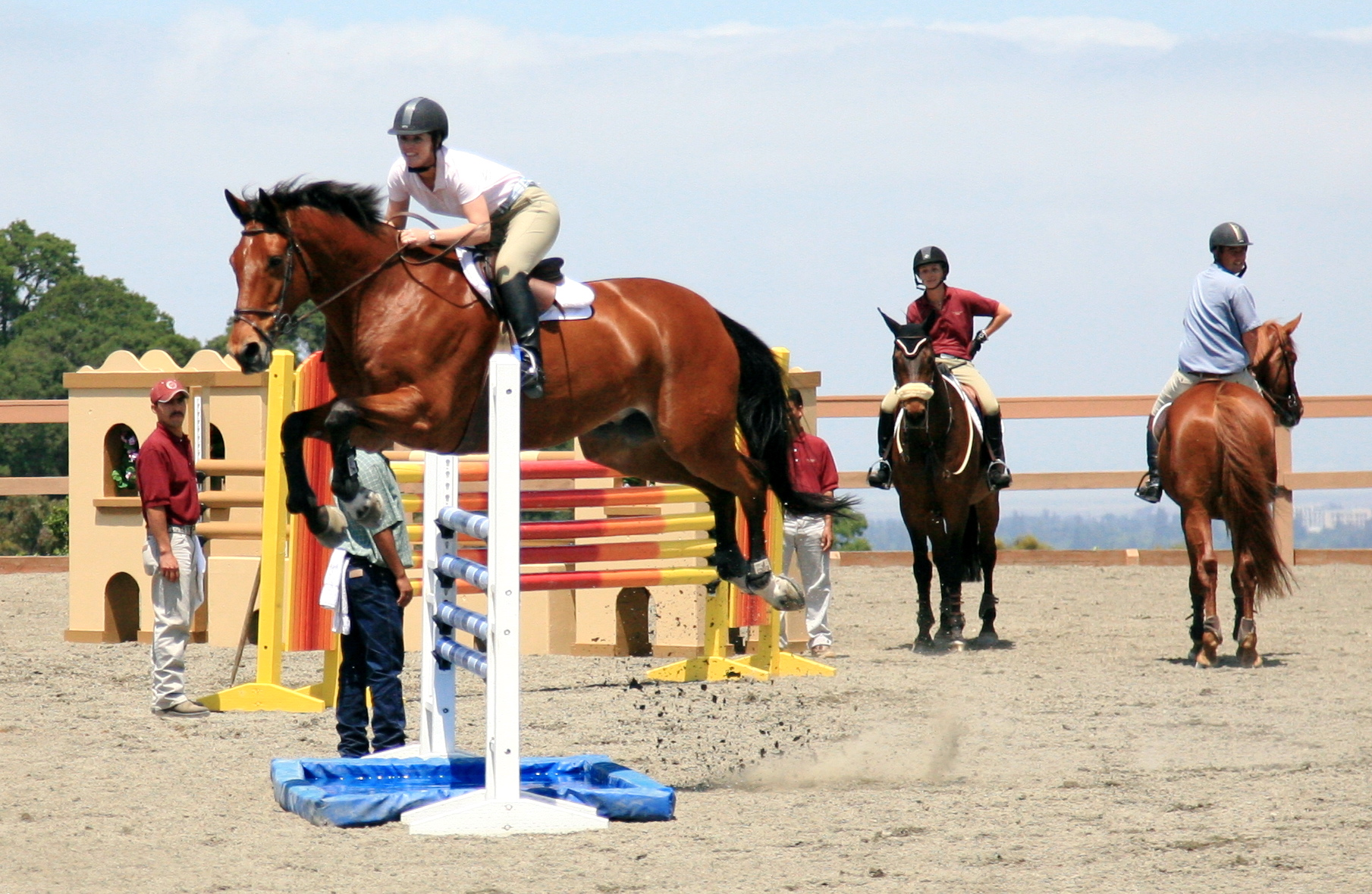 Short crest release. A show jumper riding over a liverpool at a lower level competition.